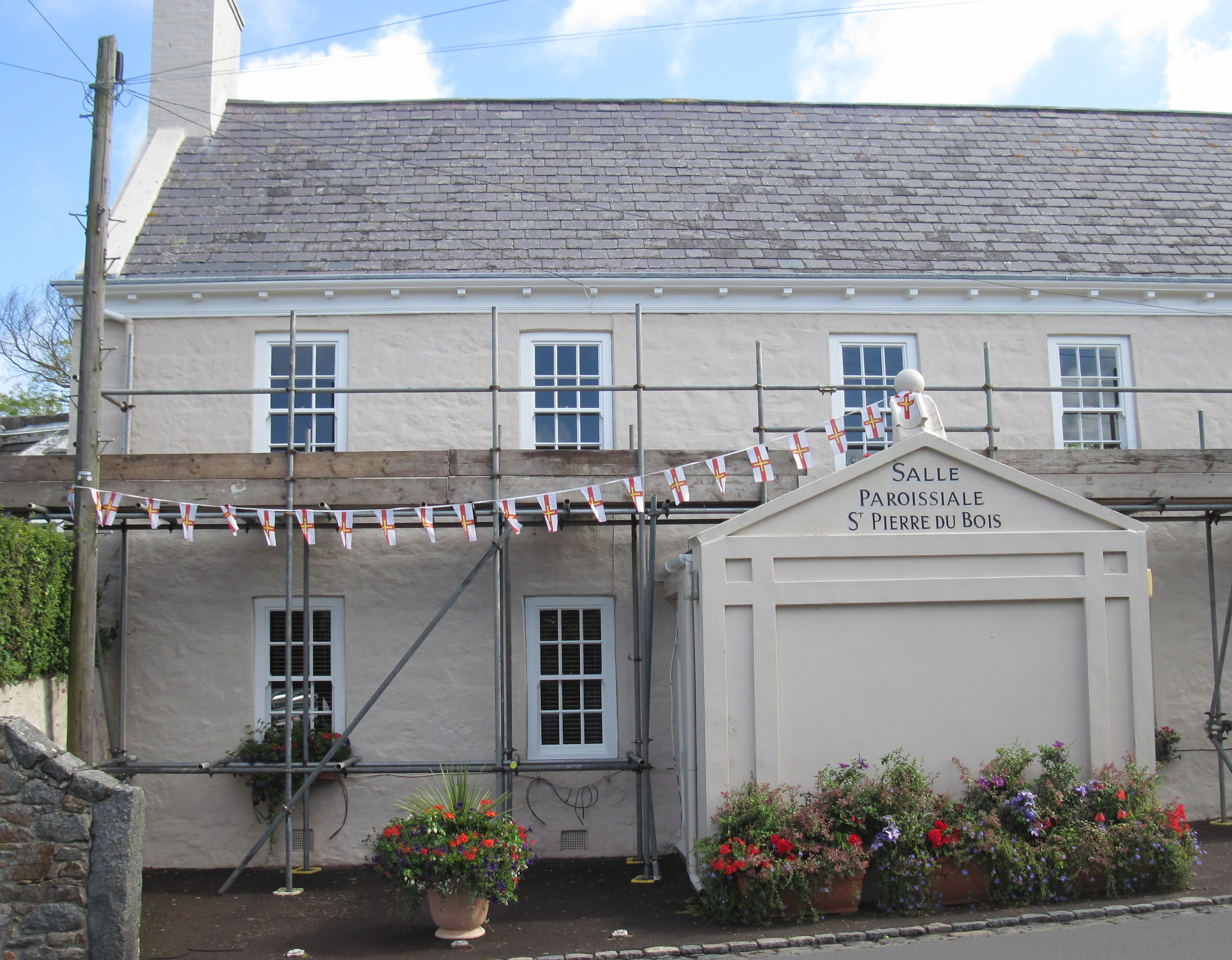 St Peter's, Guernsey Nrf: Saint Pierre (Guernési)